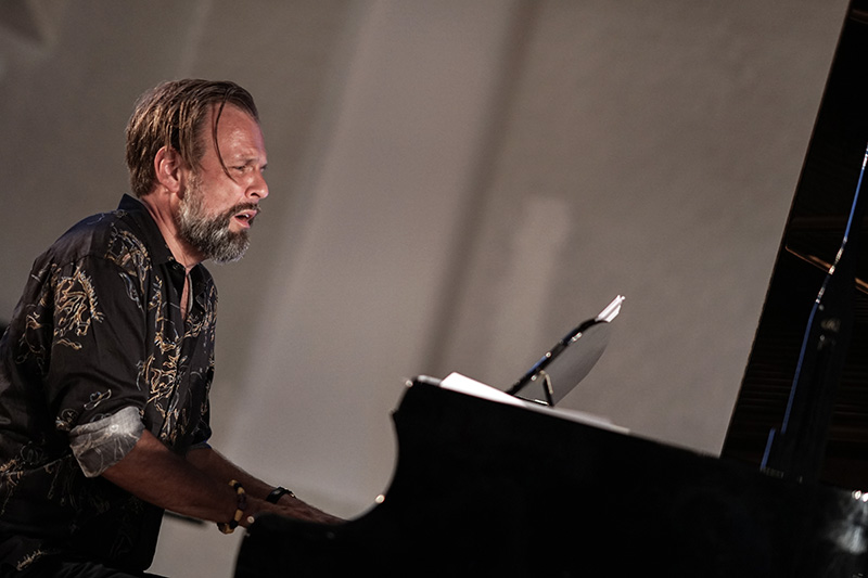 Henrik Lindstrand at Copenhagen Jazz Festival 2018